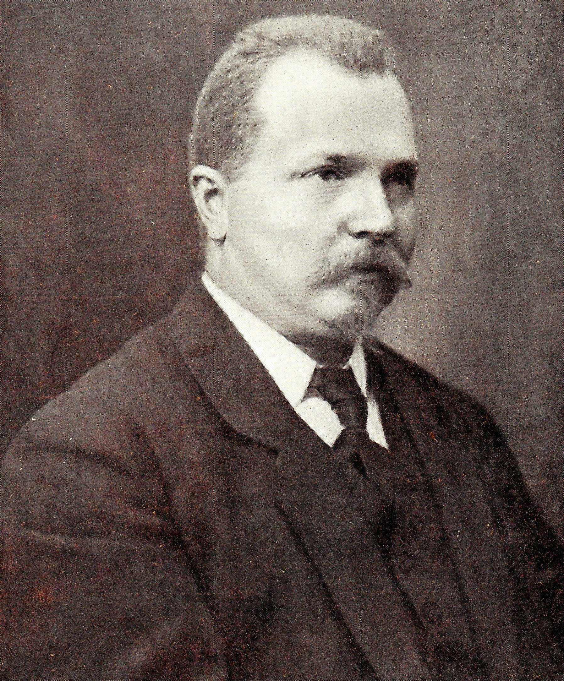 Prof. Dr. J.H. Zaaijer